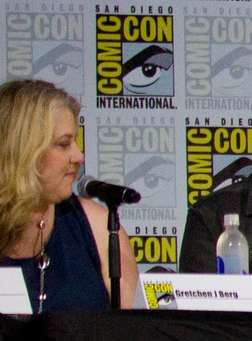 Cast & creators panel at SDCC 2017